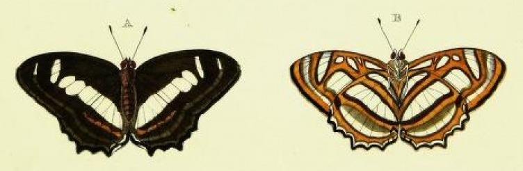 Detail of the plate CCCXXVIII; the original illustration of Papilio sulpitia (currently called Metamorpha elissa): A (back side); B (ventral side). The species was cataloged by them 40 years before receiving its current denomination.